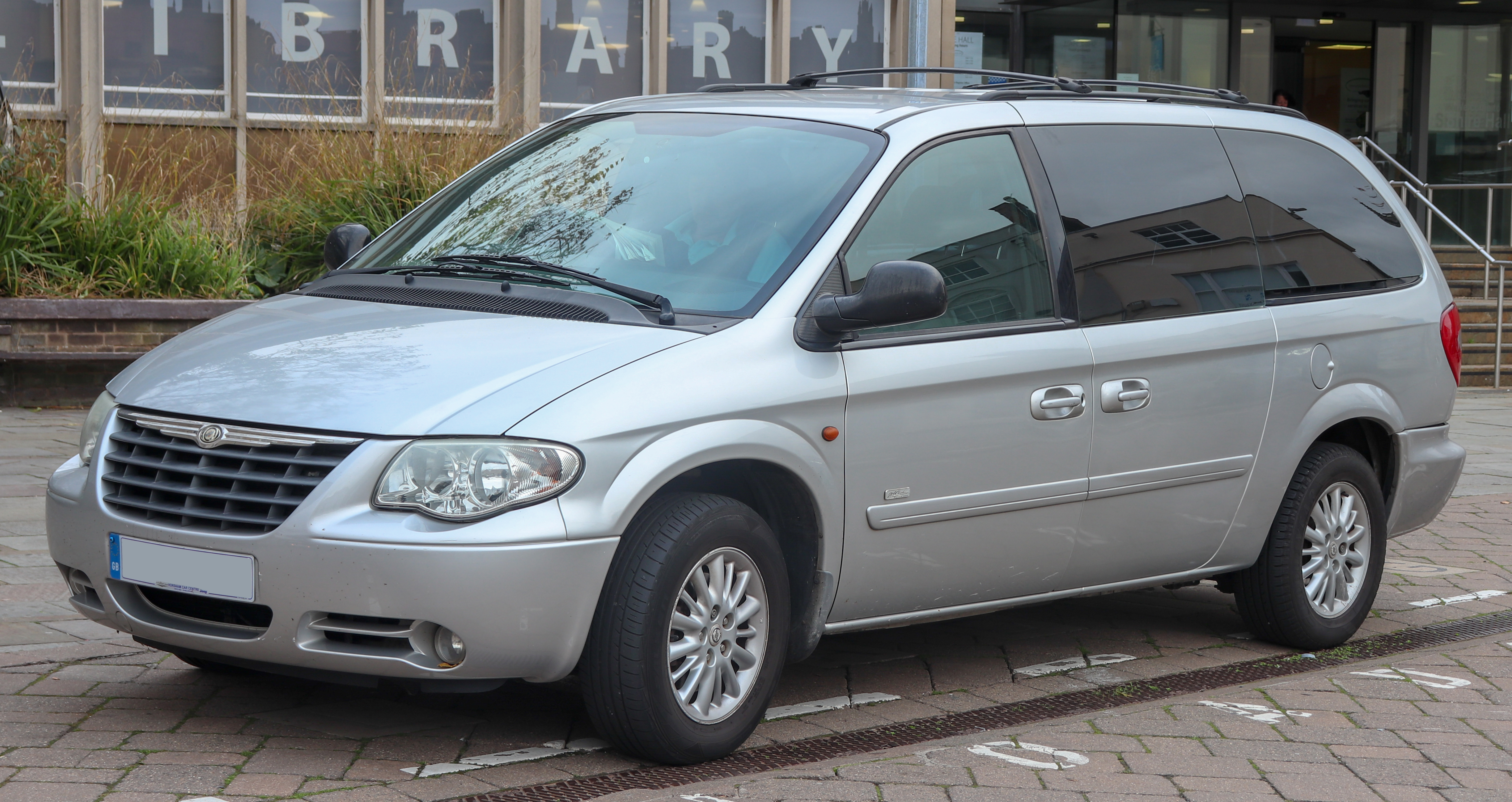 2007 Chrysler Grand Voyager Signature CRDA 2.8 Front Taken in Warwick